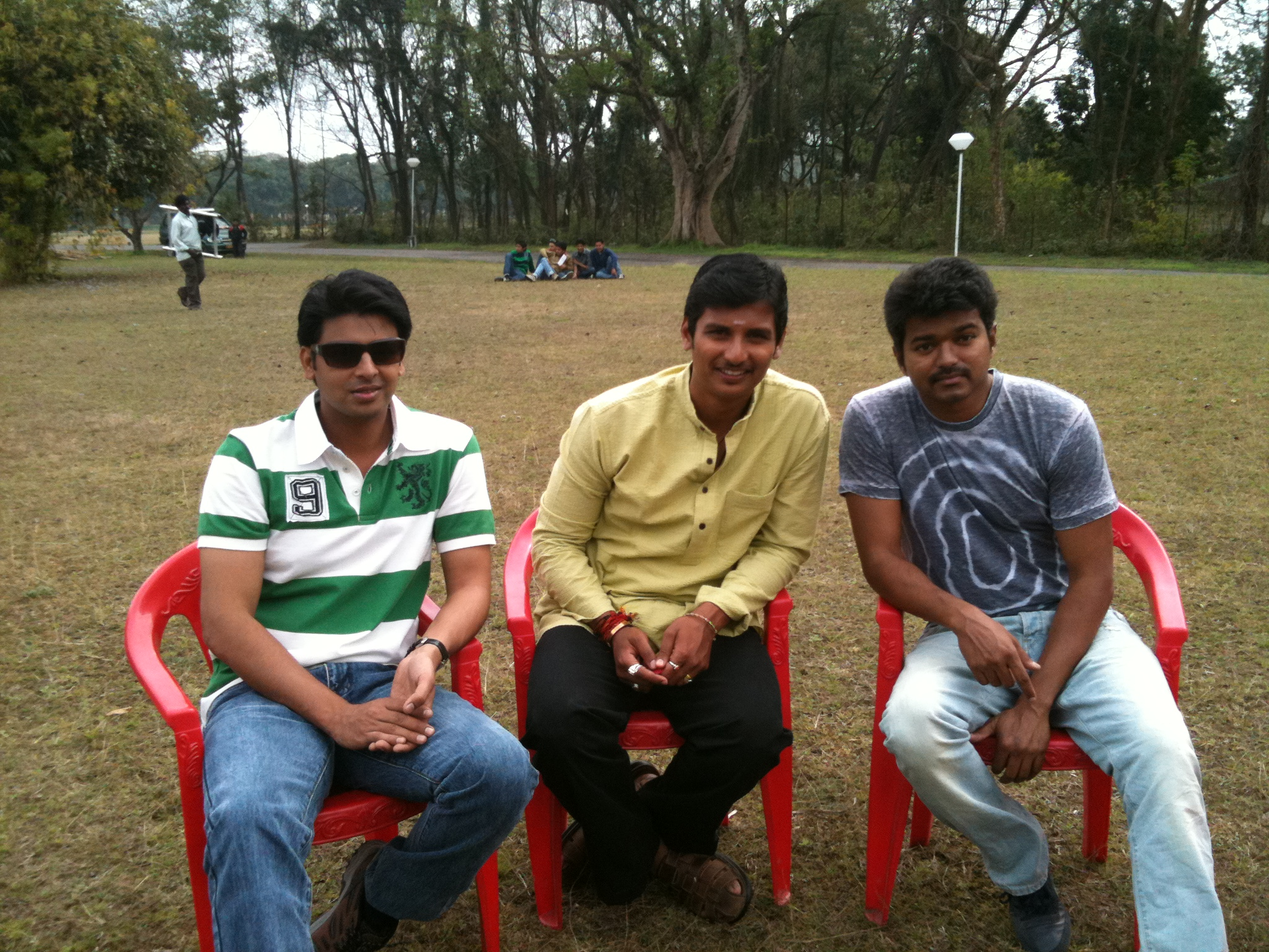 From the sets of Nanban (Tamil remake of 3 idiots) (L-R) Srikanth, Jiiva and Vijay reprised the role of Madhavan, Sharman Joshi and Aamir Khan respectively